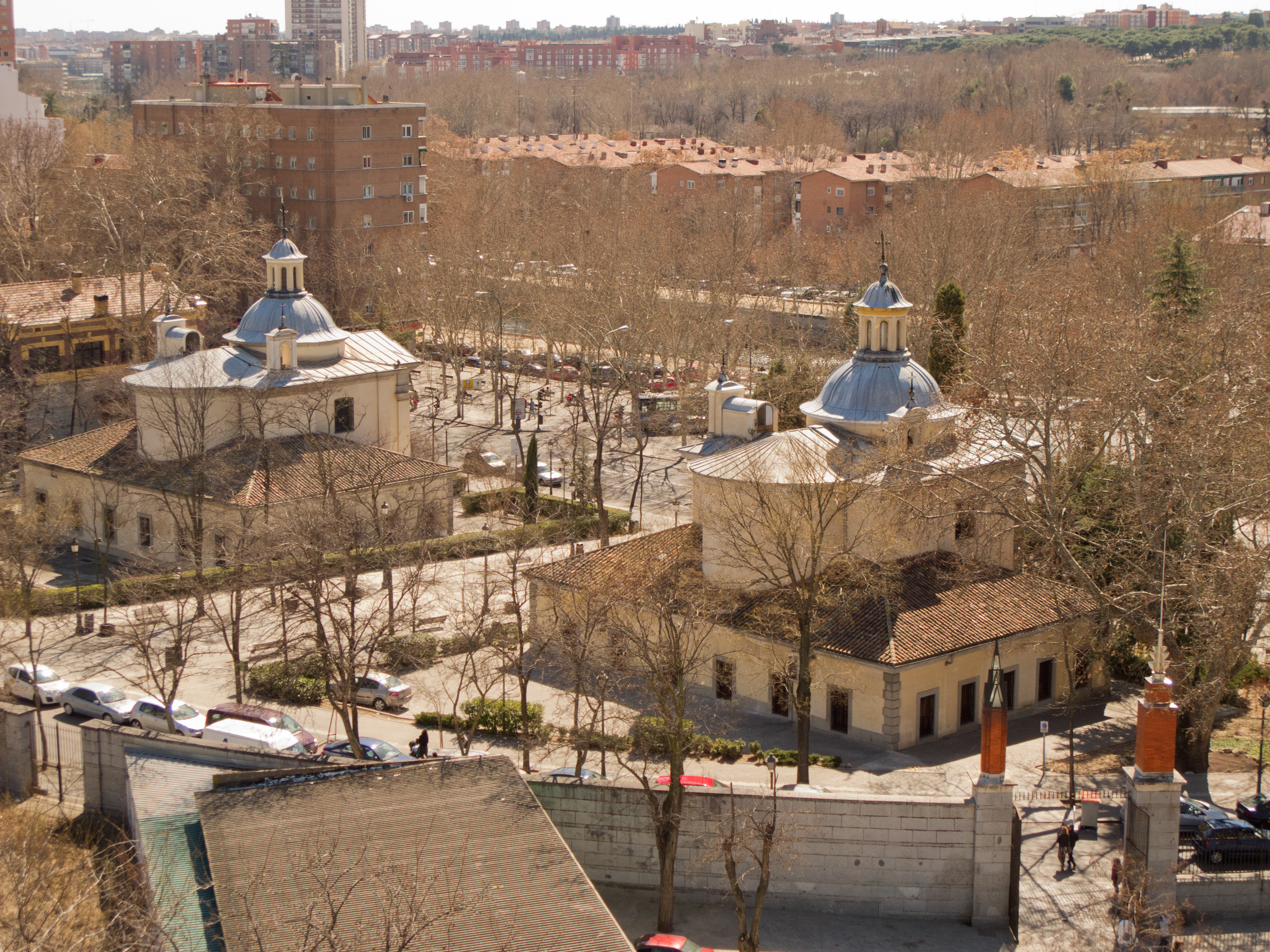 Royal Chapel of St. Anthony of La Florida, Madrid, Spain.